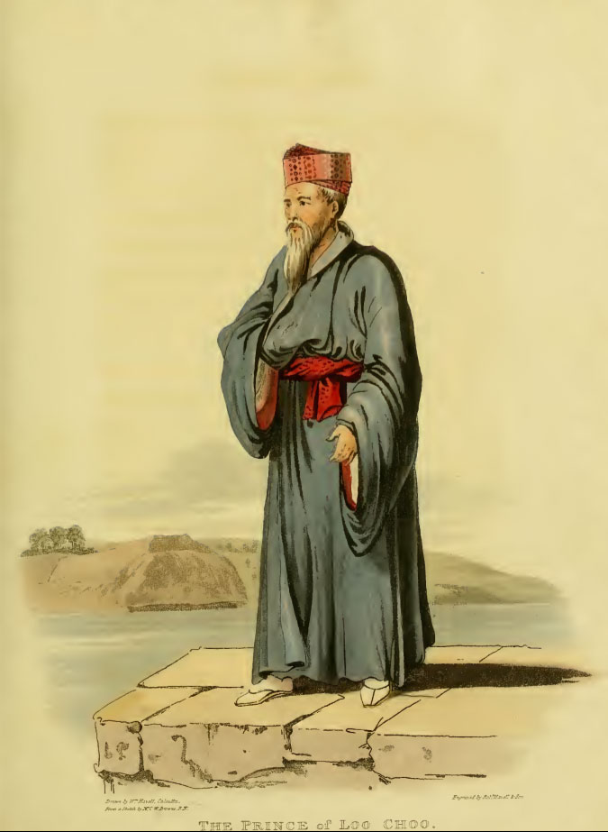 Shō Kōki, also known as Unten Aji Chōei (12th head of Gushikawa Udun, 1775 - ? )